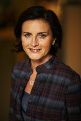 Isabella Leeb, City Councillor